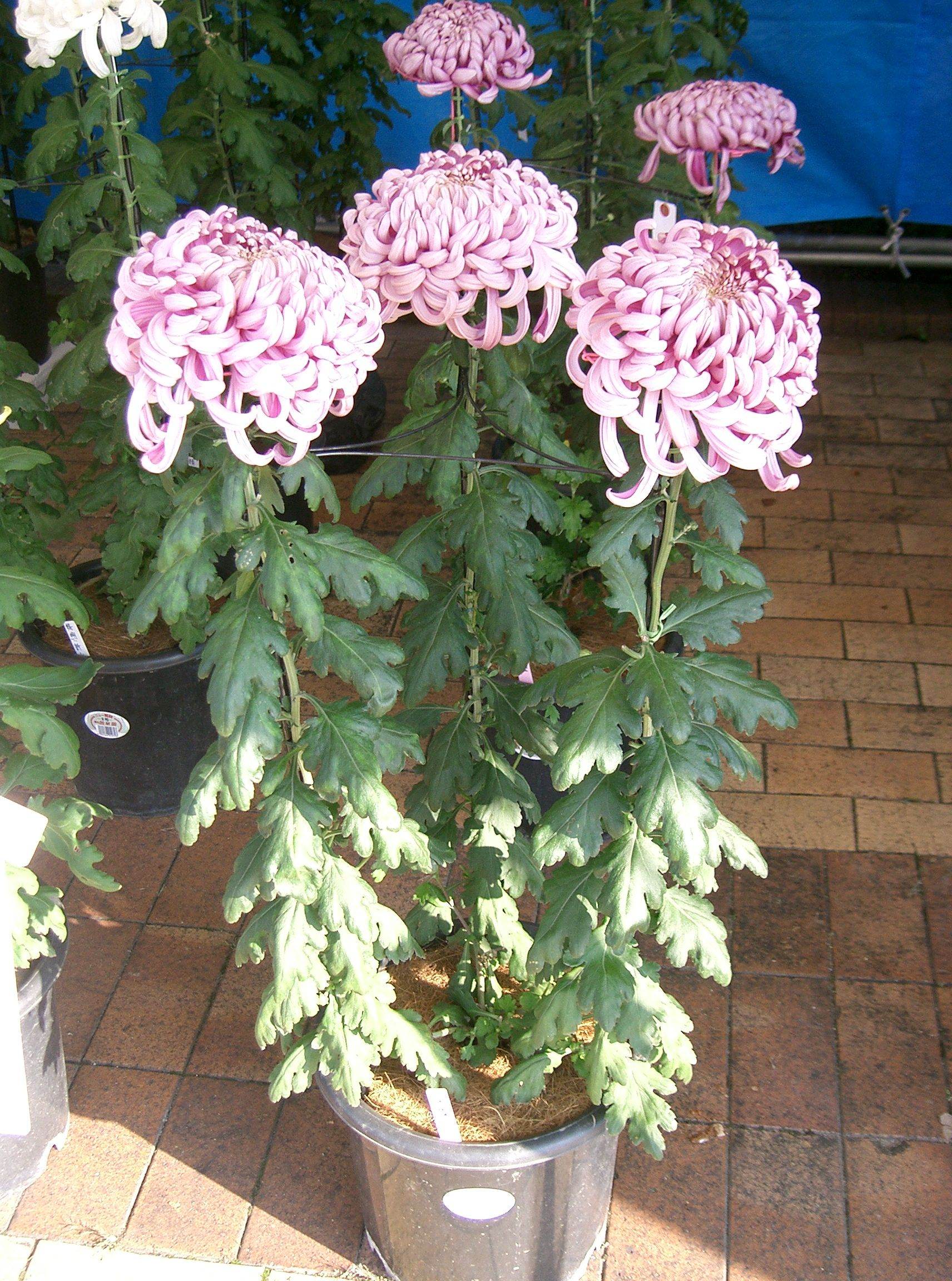 Chrysanthemum morifolium cv.